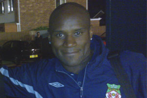 Picture of Frank Sinclair.